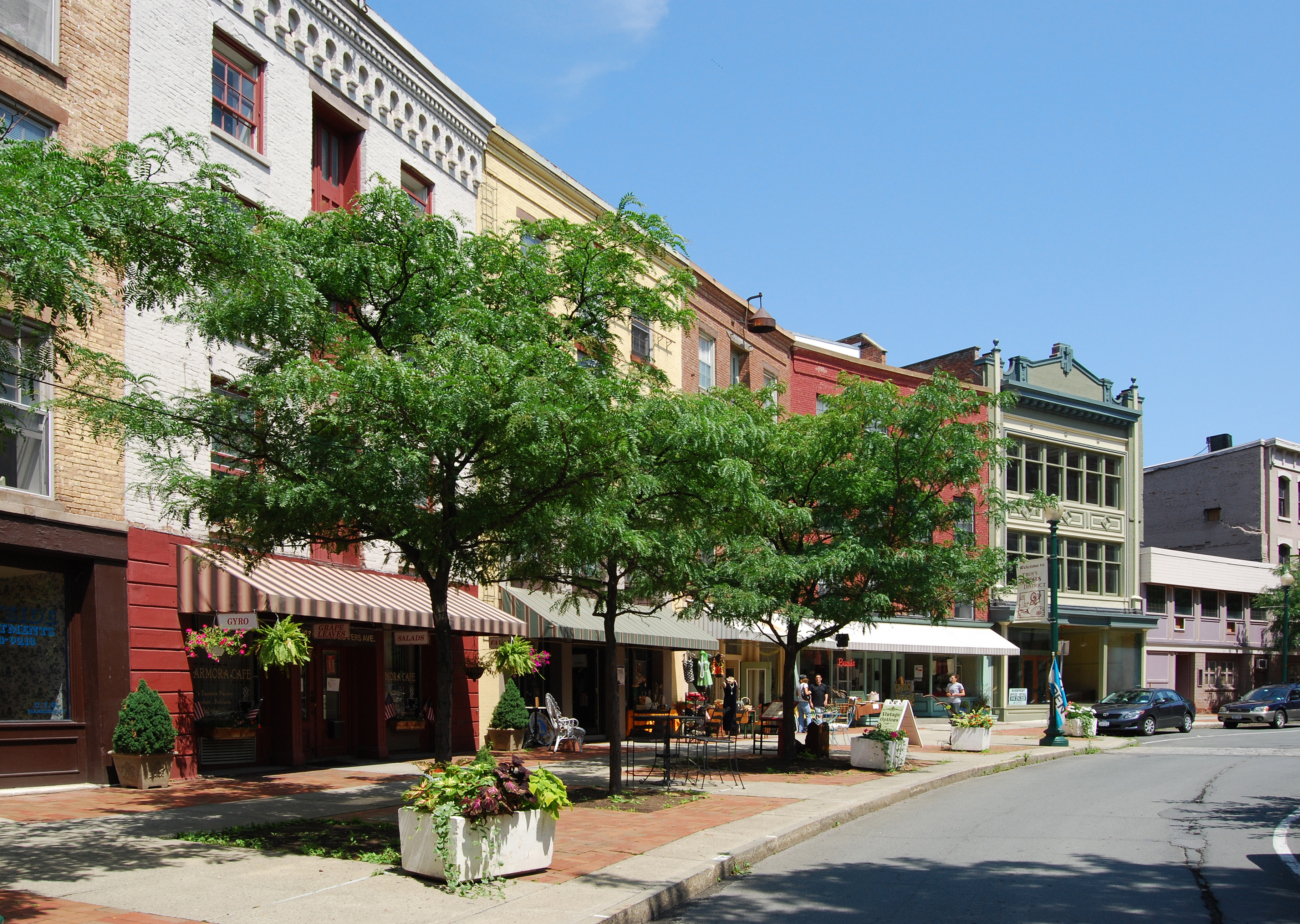 Antique District, contributing properties to the Central Troy Historic District in Troy, New York, United States